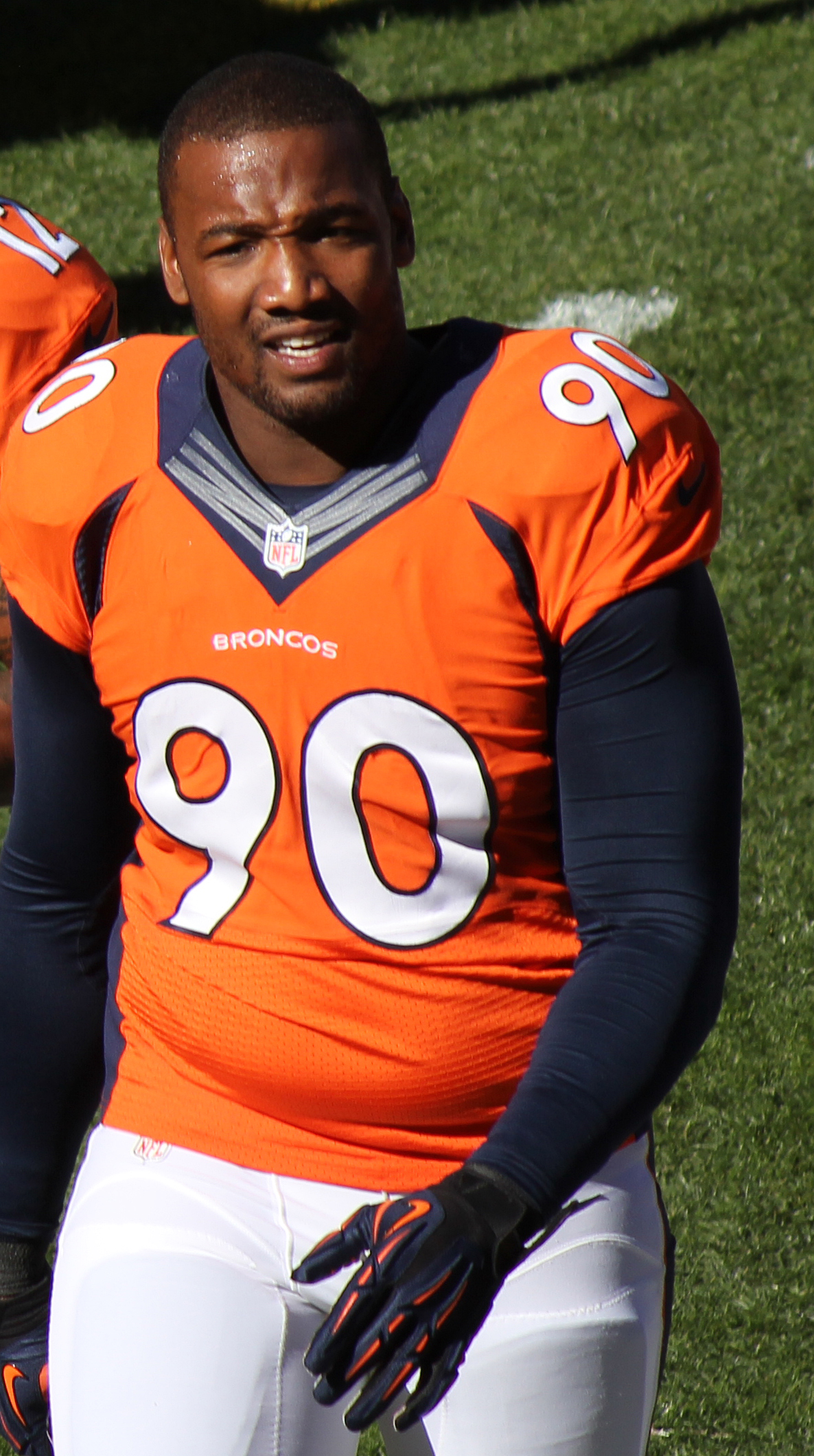 Shaun Phillips, a player on the National Football League.